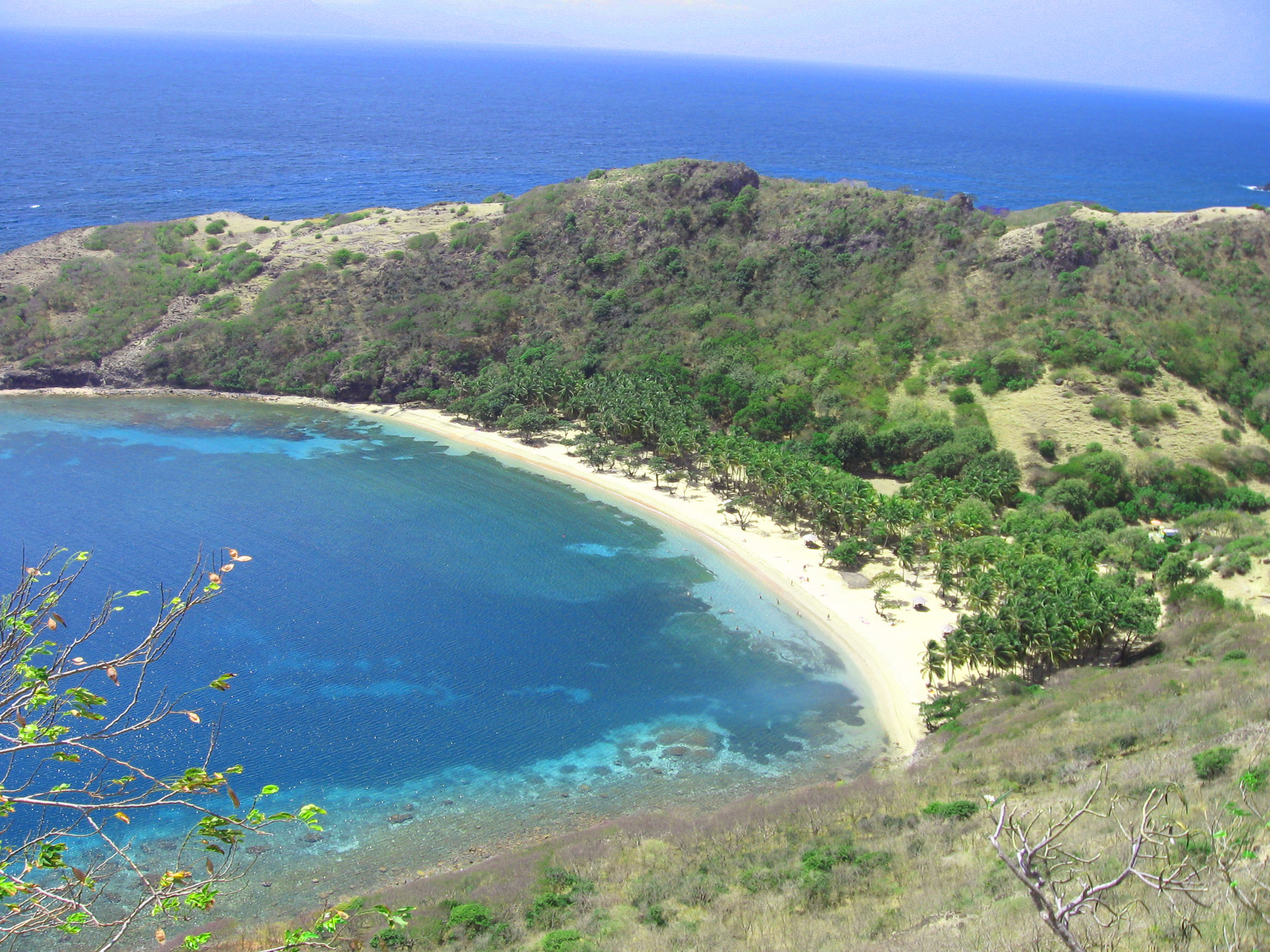 One of the numerous beaches waiting for you ( view of Pompierre from the battery Caroline)